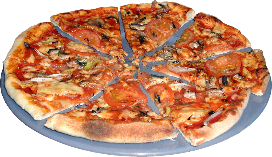 Version of Image:Pizza-2.jpg with transparent background